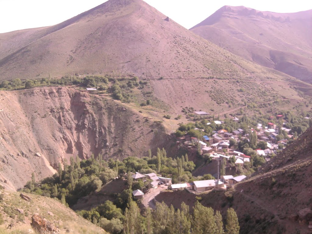 نمای تیان